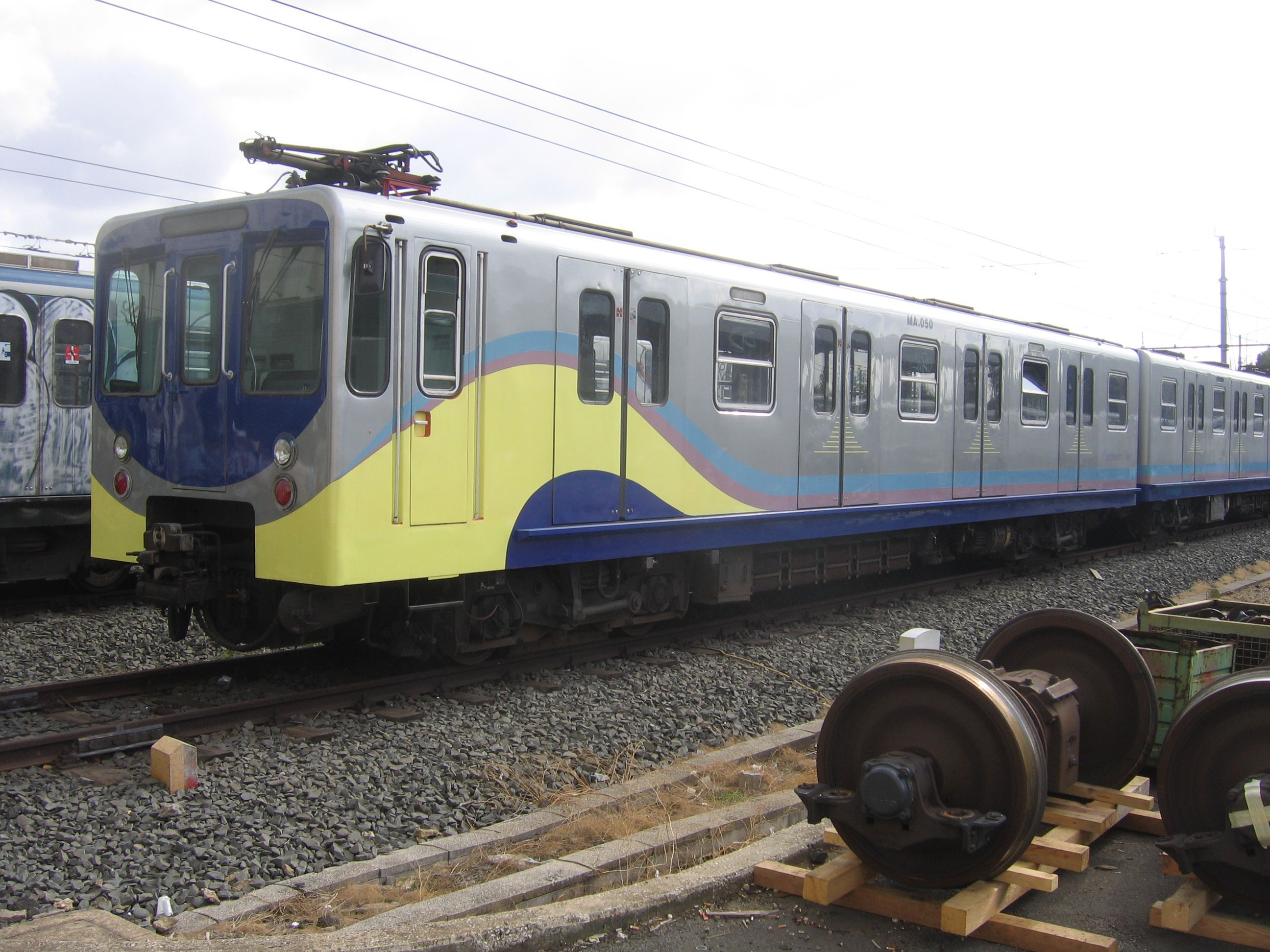 Electric unit for the Rome-Lido Ostia railway